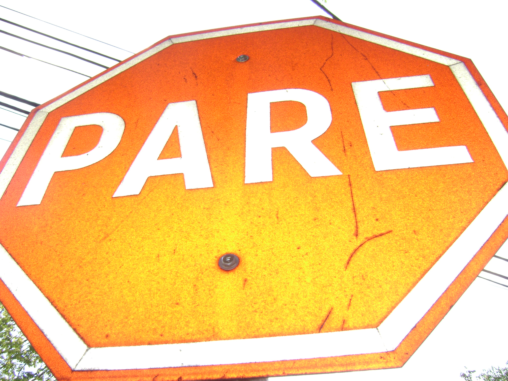 Placa "pare" de trânsito.